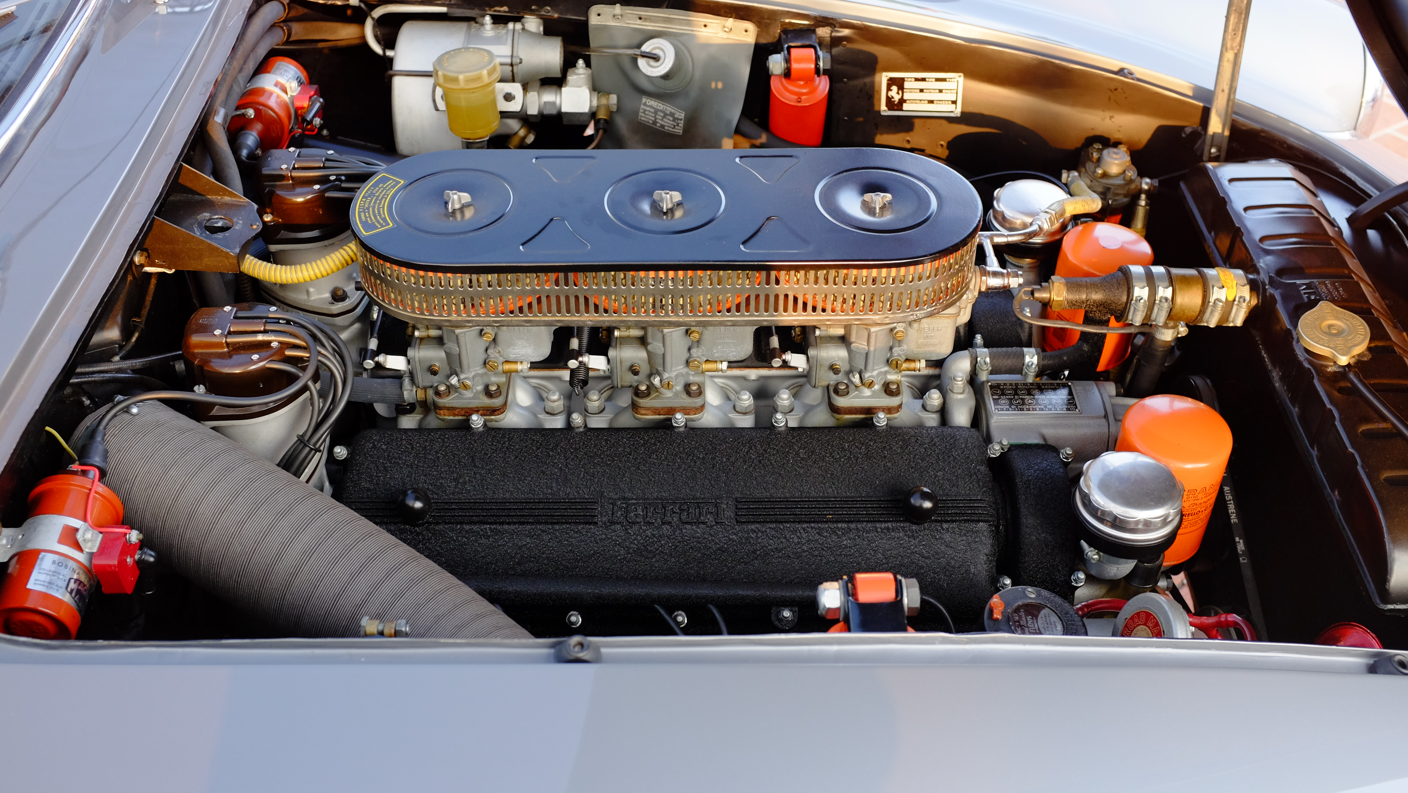 Engine compartment of 1963 Ferrari 250 GT/L Lusso, chassis number 4393. Photographed at RM Sotheby's 2018 Monterey auction.